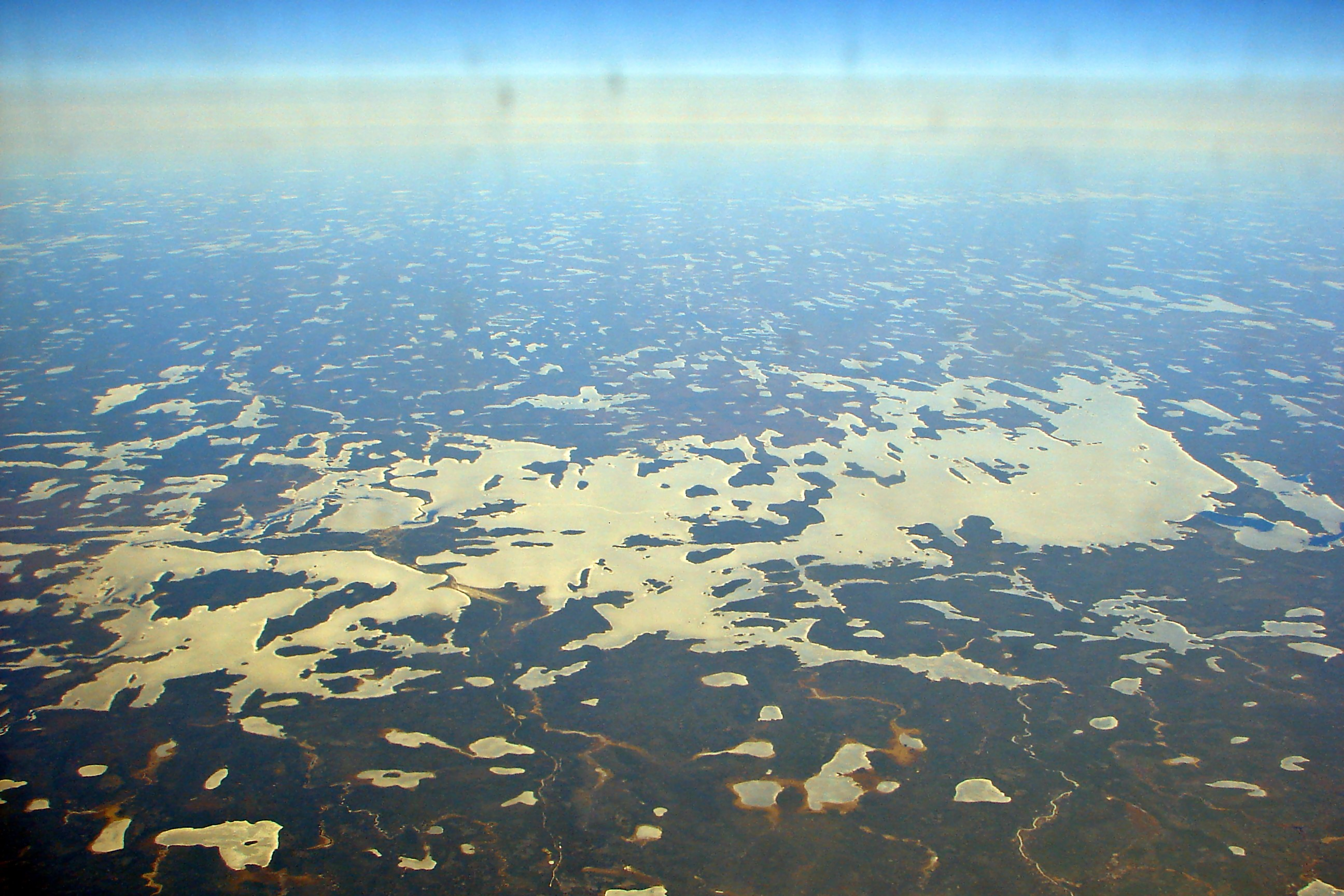 Aerial view of northern Kenora District with Wunnummin Lake, Ontario, Canada